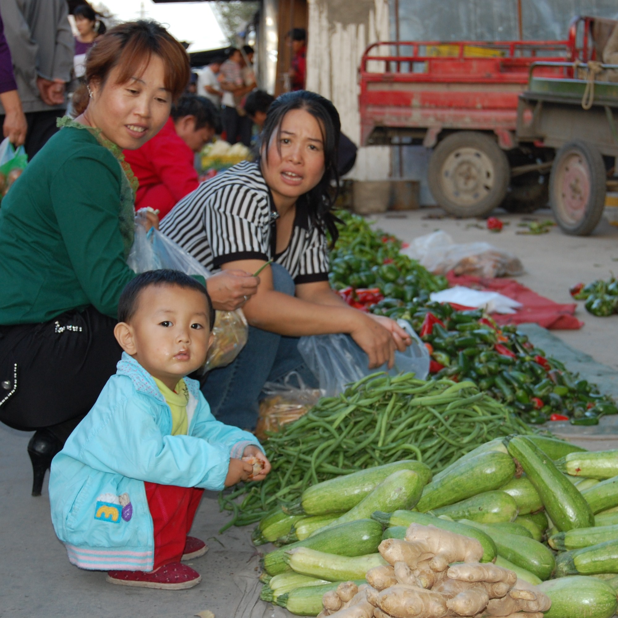 Mother and son in Jiayuguan, China